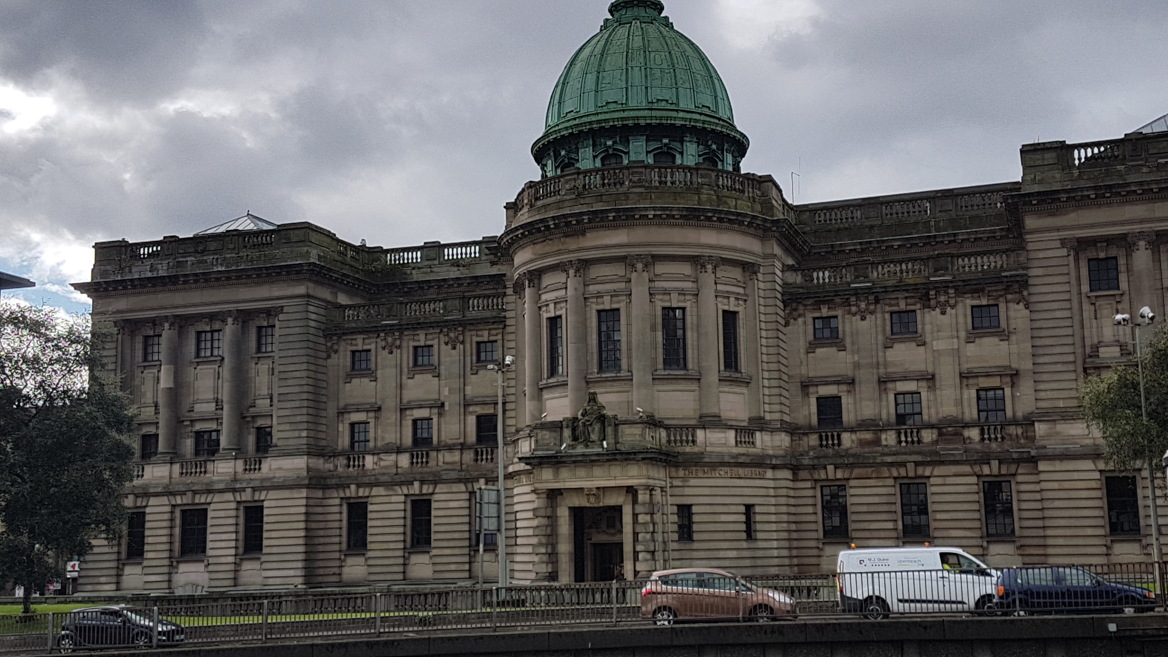 201 North Street, Mitchell Library Wikidata has entry Q17807319 with data related to this item.